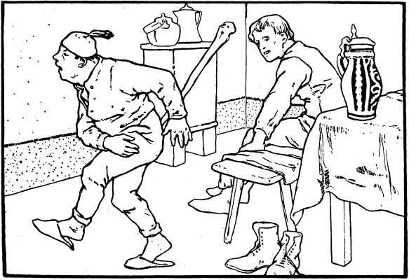 Illustration by Otto Ubbelohde to the fairy tale The Wishing-Table, the Gold-Ass, and the Cudgel in the Sack